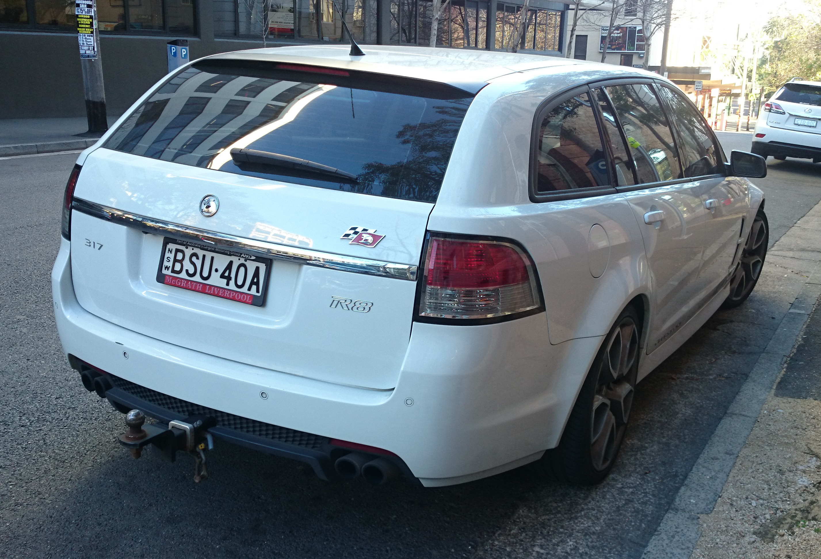 HSV R8 Sportswagon 317